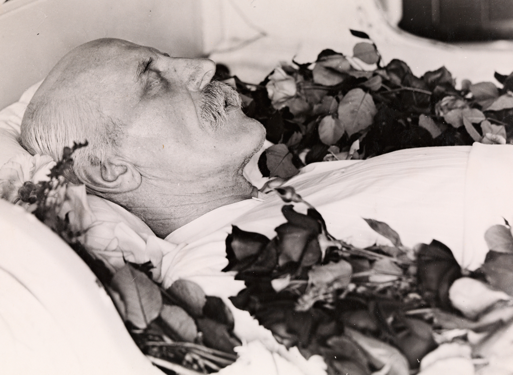 Fridtjof Nansen laid out in his coffin.